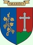 Coat of arms of Maróc, Hungary